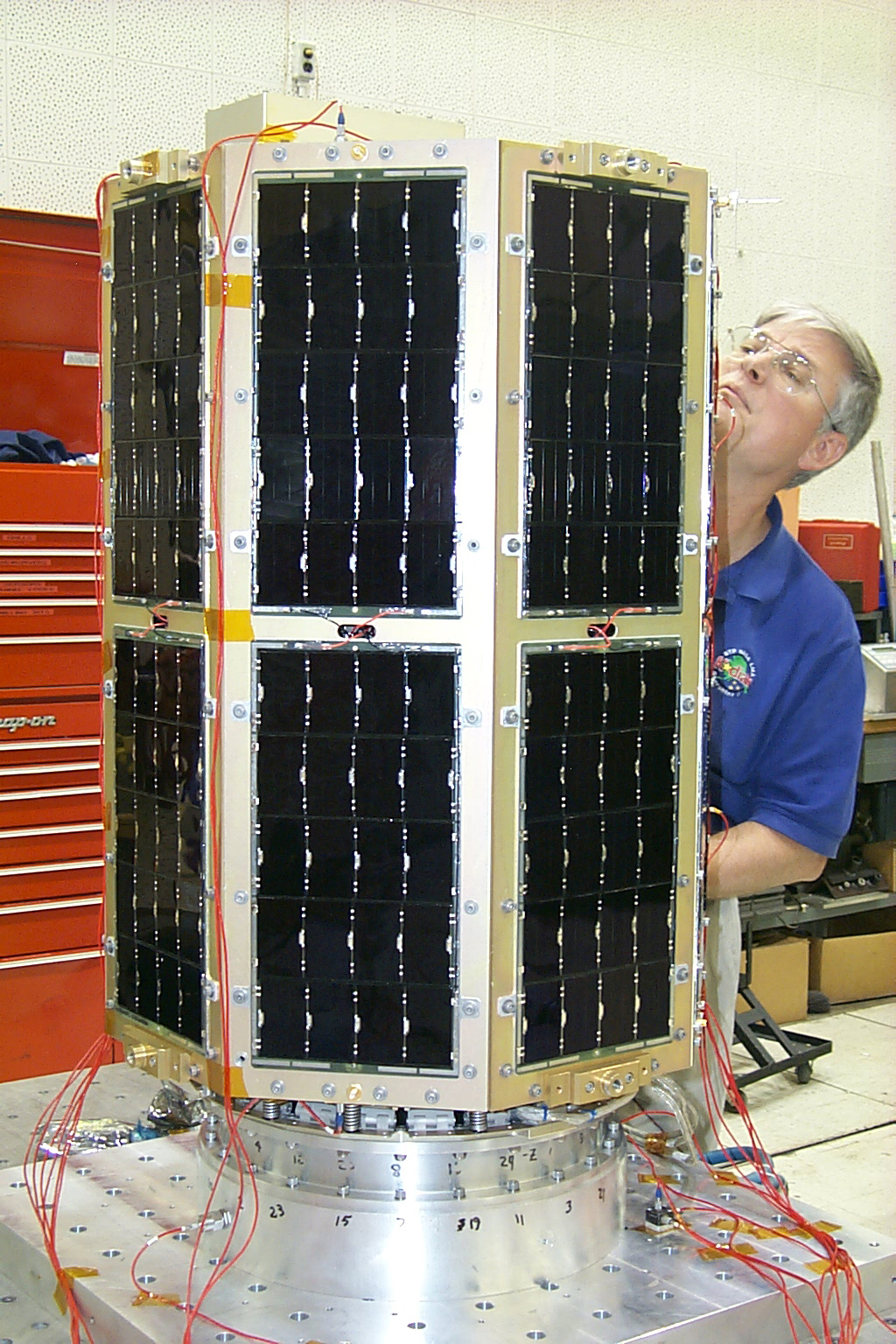 Dr. Billy R. Smith Jr., director of the USNA Small Satellite Program and MidSTAR-1 program manager, inspects MidSTAR-1 for damage after vibration testing at the Naval Research Laboratory. This test demonstrated that the satellite could survive the rigors of launch and retain functionality. High-efficiency, triple-junction gallium arsenide solar cells cover the sides; the S-band transmit antenna is visible at the upper right. The external neutron detector for the MicroDosimeter Instrument (MiDN) is visible on the top.